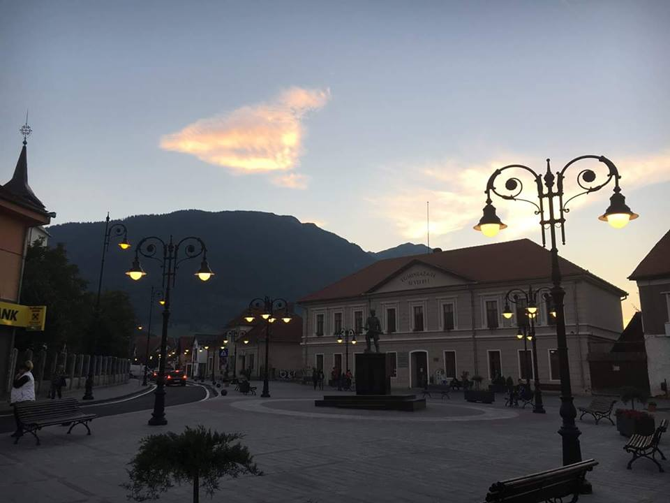 Zărnești Central Square